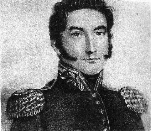 José María Paz (1791-1854), soldier of argentine independence; chief of army in Argentina`s civil wars